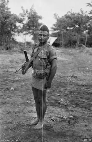 AWM caption : Hansa Bay - Sepik River Area, New Guinea. 1944-08-05. 427 Sergeant Bengari, MM of A Company, Papuan Infantry Battalion, who has 104 Japanese to his credit and has been recommended for the DCM.